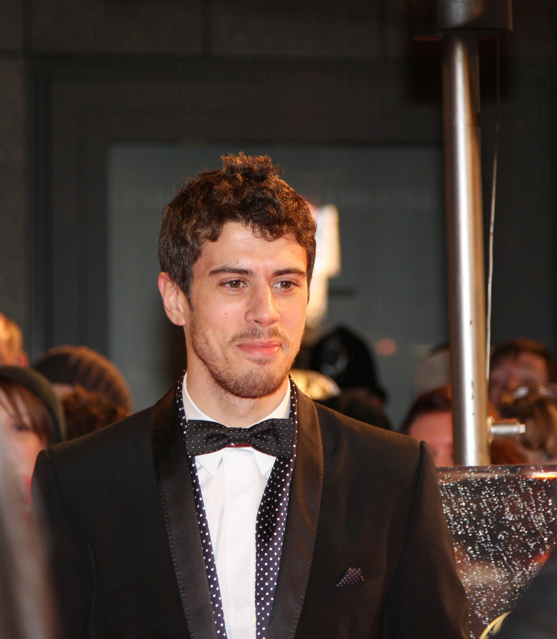 Toby Kebbell